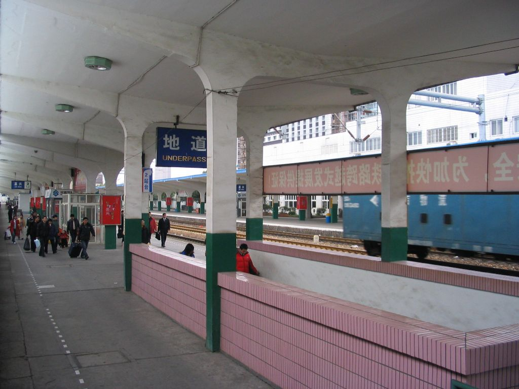 嘉兴站-站台 Platform of Jiaxing Station